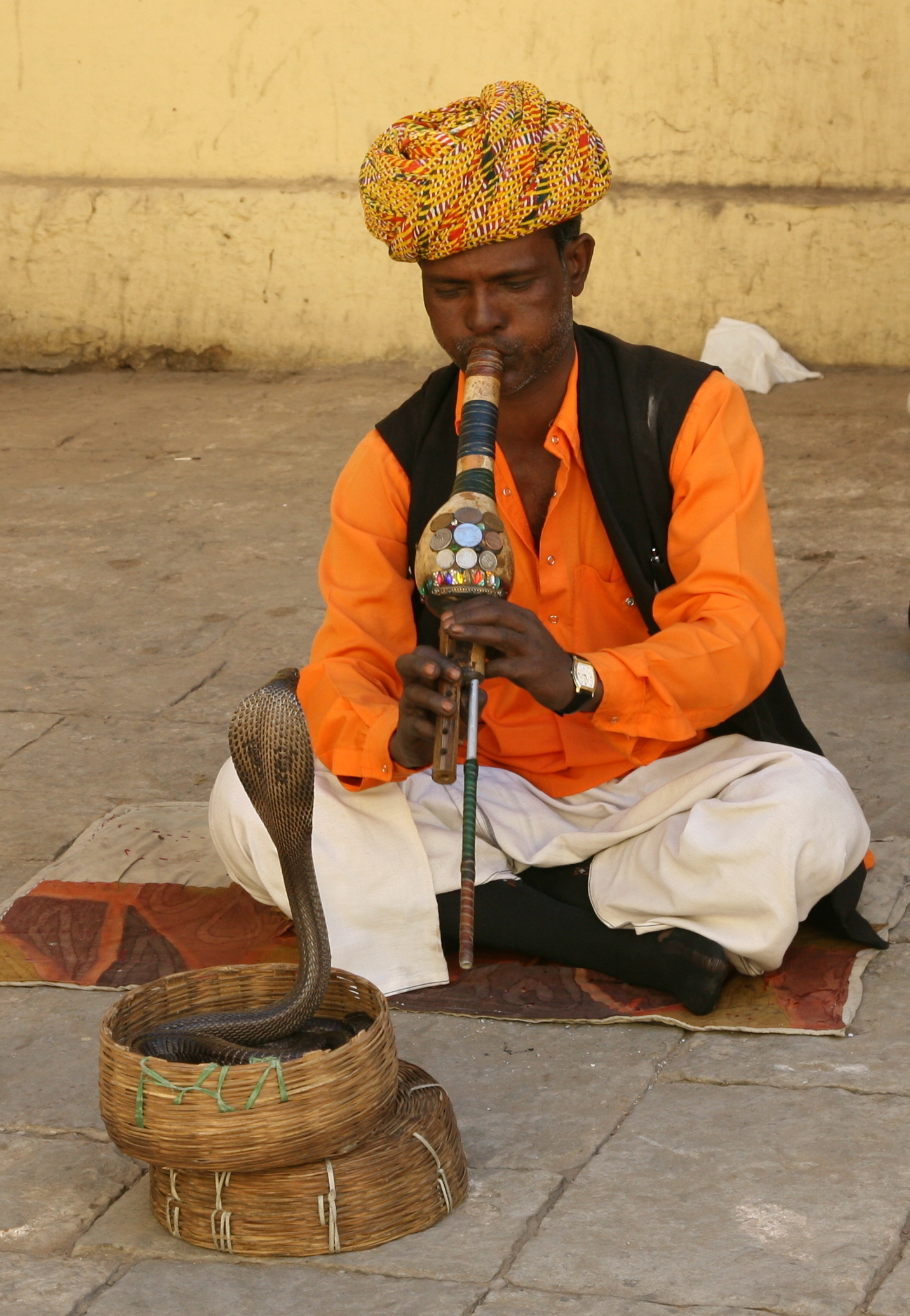 A snake charmer outside the City Palace in Jaipur